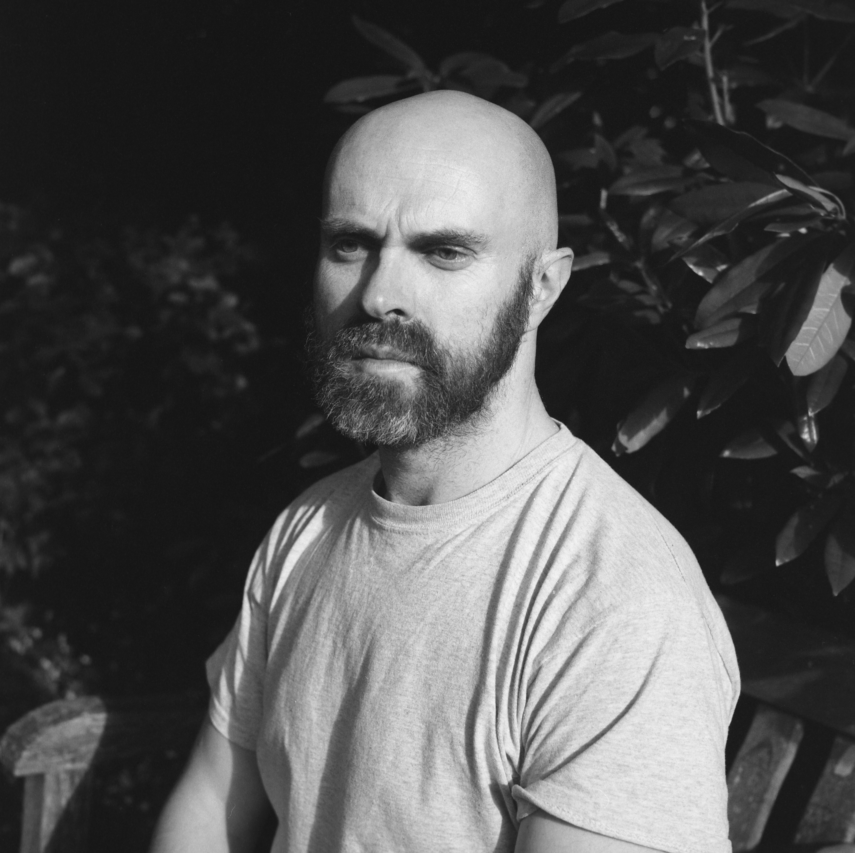 A Portrait of Robert Darch